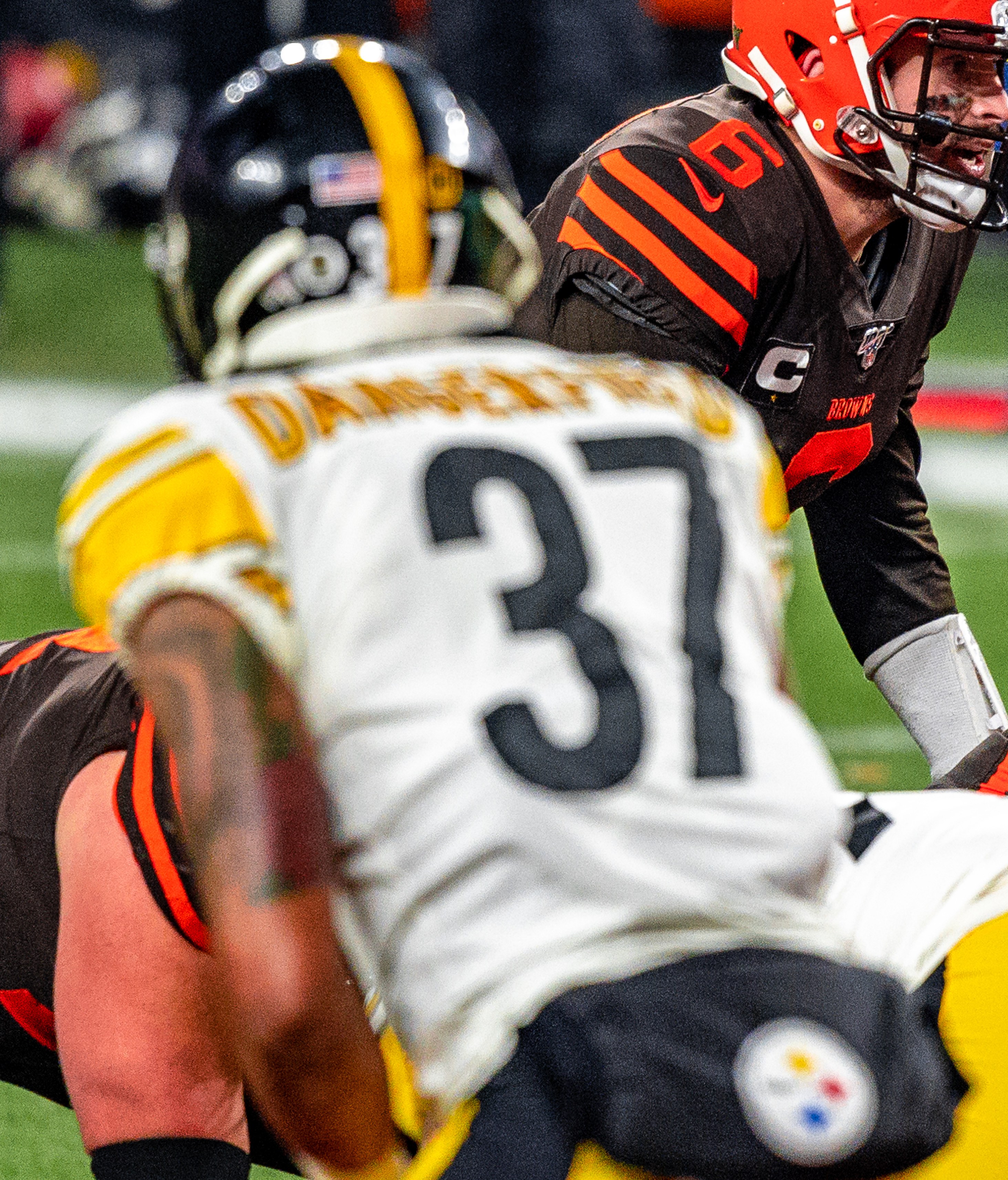 Steelers vs Browns 2019